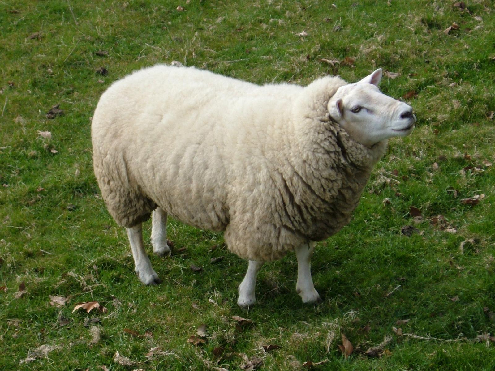 Sheep